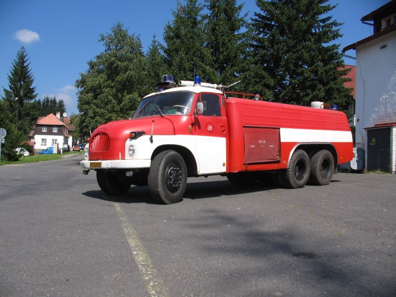 Tatra T138 Fire Engine